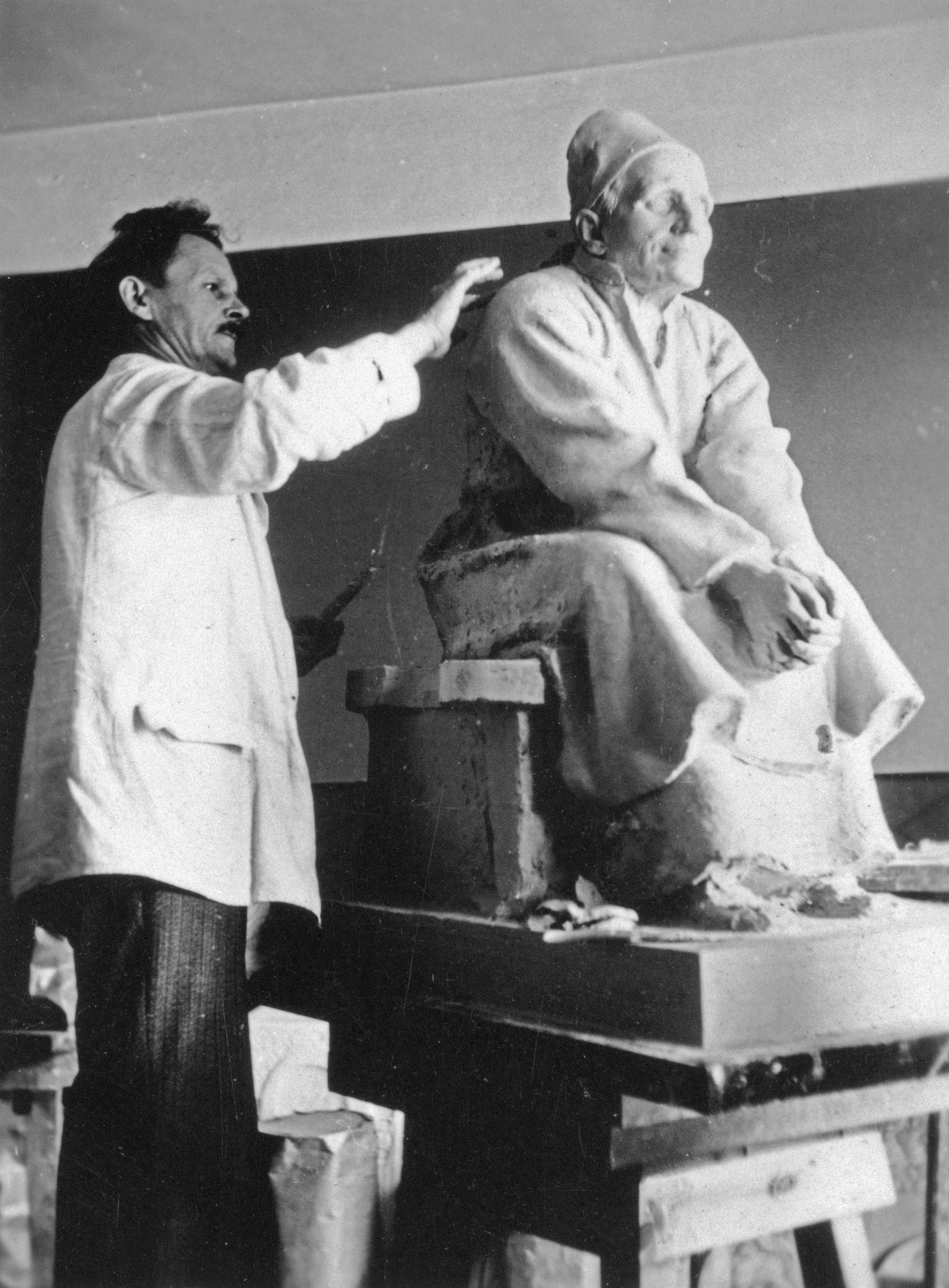 Photograph of the Finnish sculptor Alpo Sailo (1877–1955) working upon the statue of Larin Paraske.